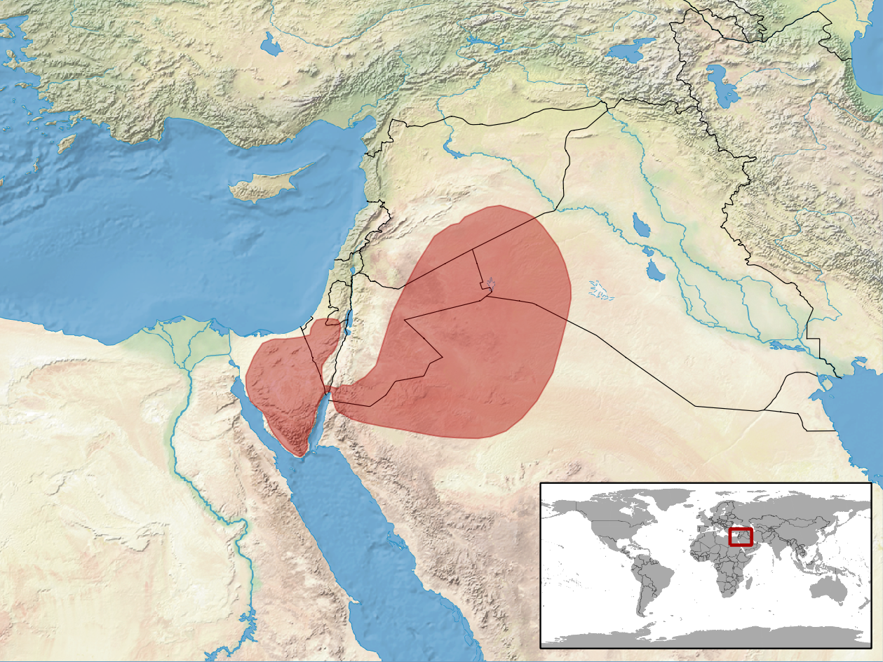 geographic distribution of Pseudocerastes fieldi (Native: Egypt; Iraq; Israel; Jordan; Saudi Arabia; Syrian Arab Republic)